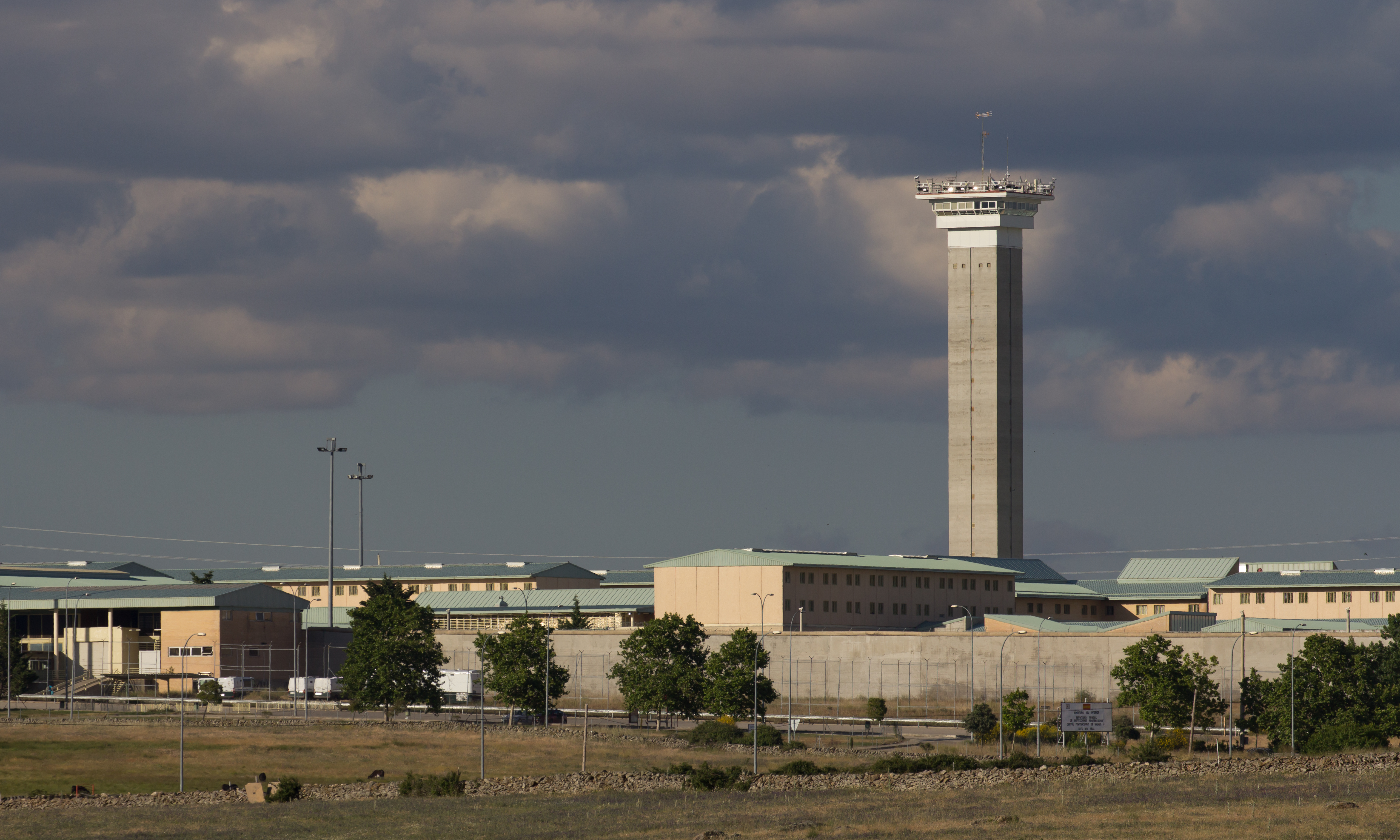 Prison Madrid V Soto del Real, Community of Madrid, Spain.